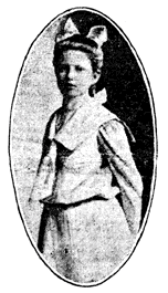 Then 14-year-old Anna Keichline